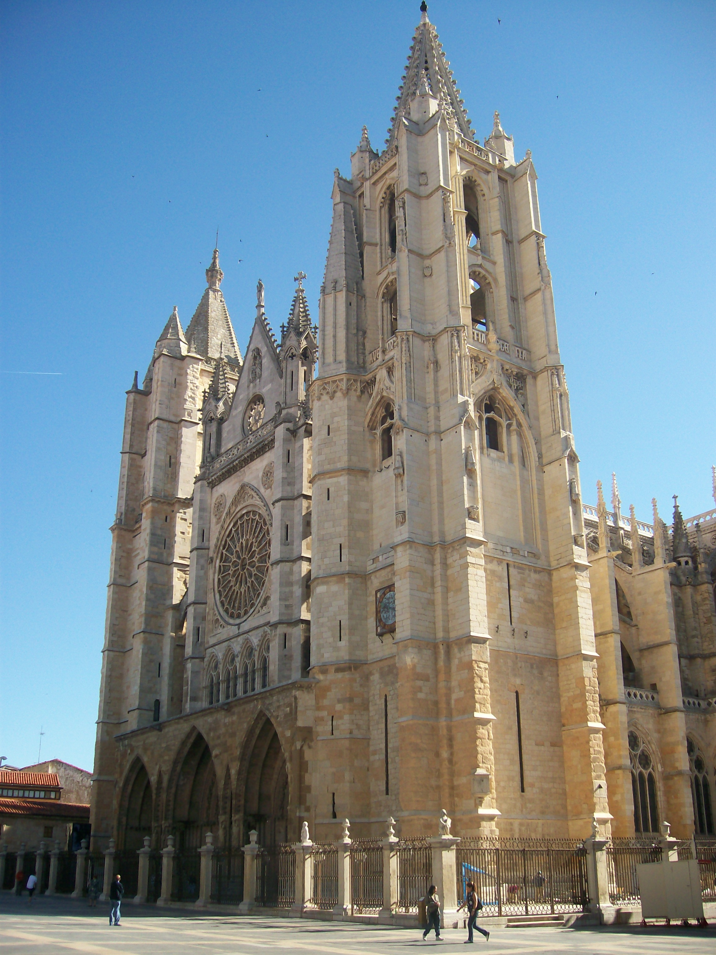 Front side of Leon cathedral